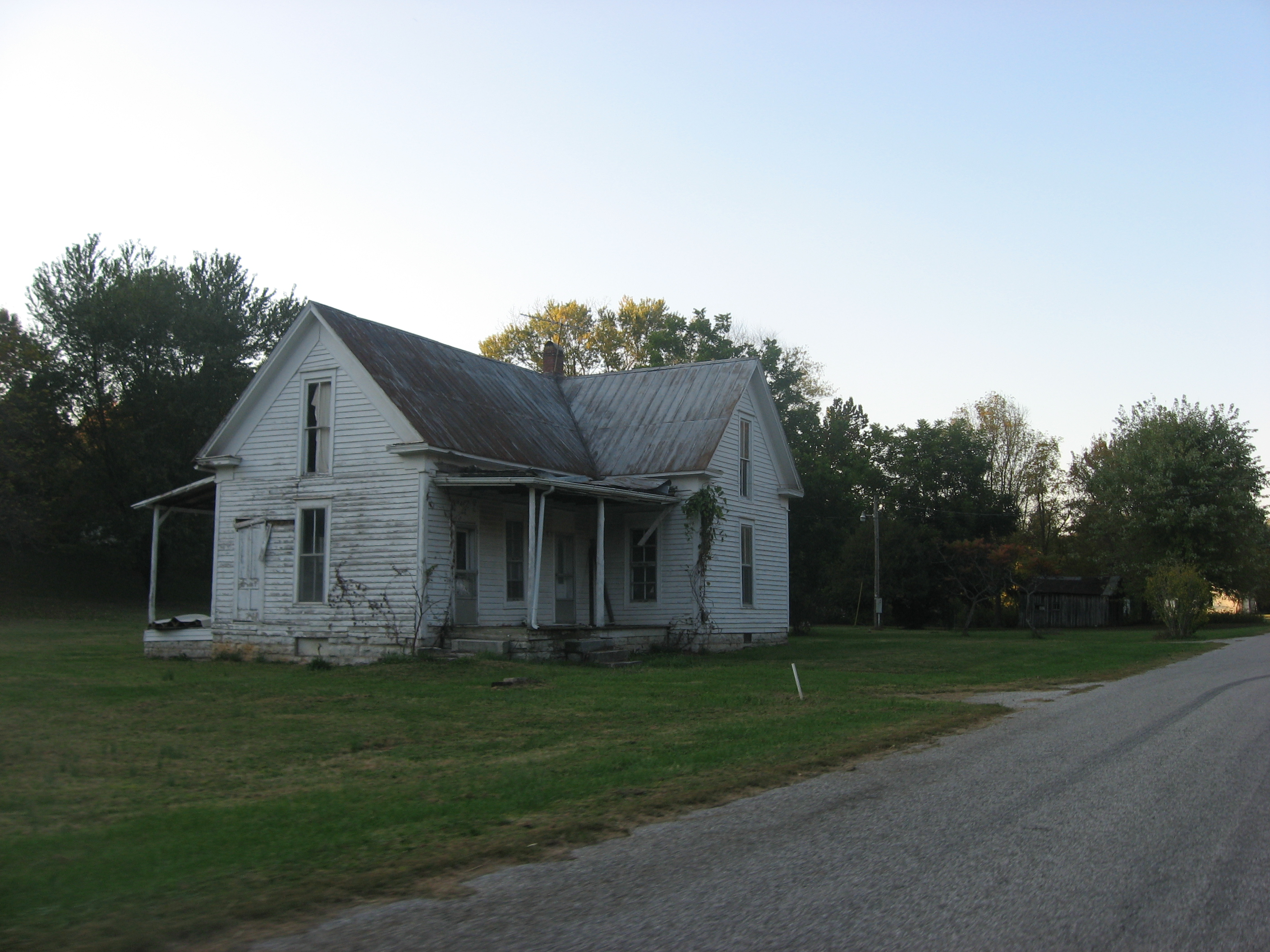 A house on the western side of Wildcat Street on the northern edge of Fort Ritner in Lawrence County, Indiana, United States.